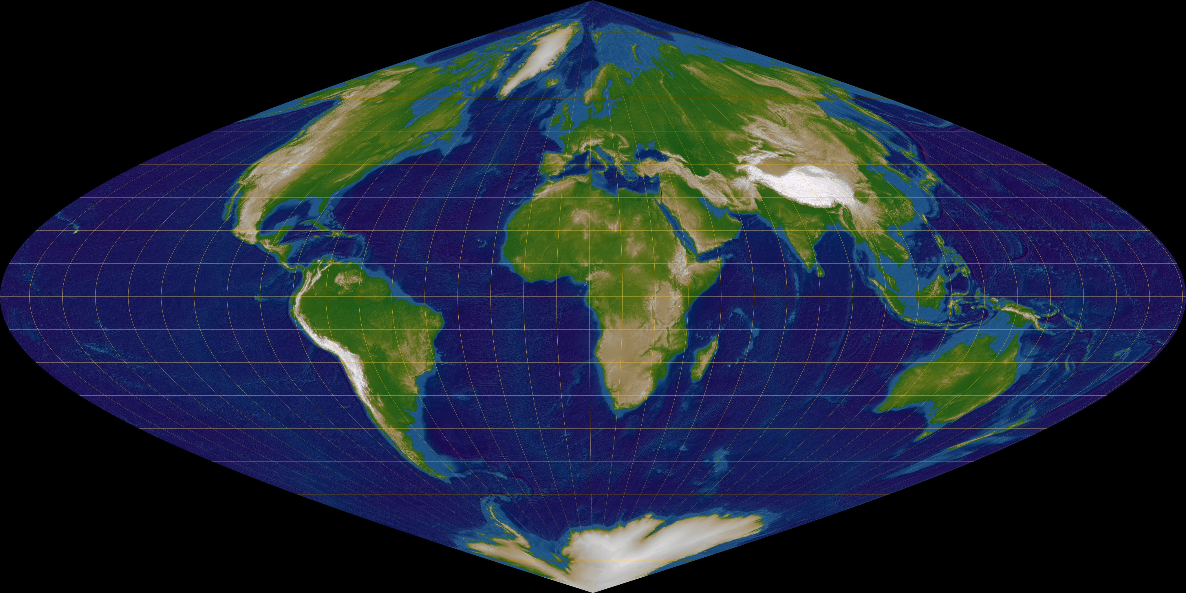 Sinusoidal projection. Center meridian is 11°5'30" E, so the map border goes through the Bering Strait